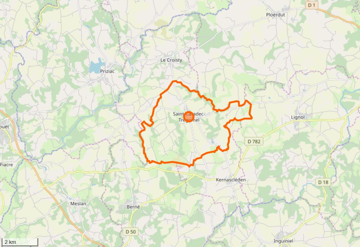 This map of Saint-Caradec-Trégomel was created from OpenStreetMap project data, collected by the community. This map may be incomplete, and may contain errors. Don't rely solely on it for navigation.